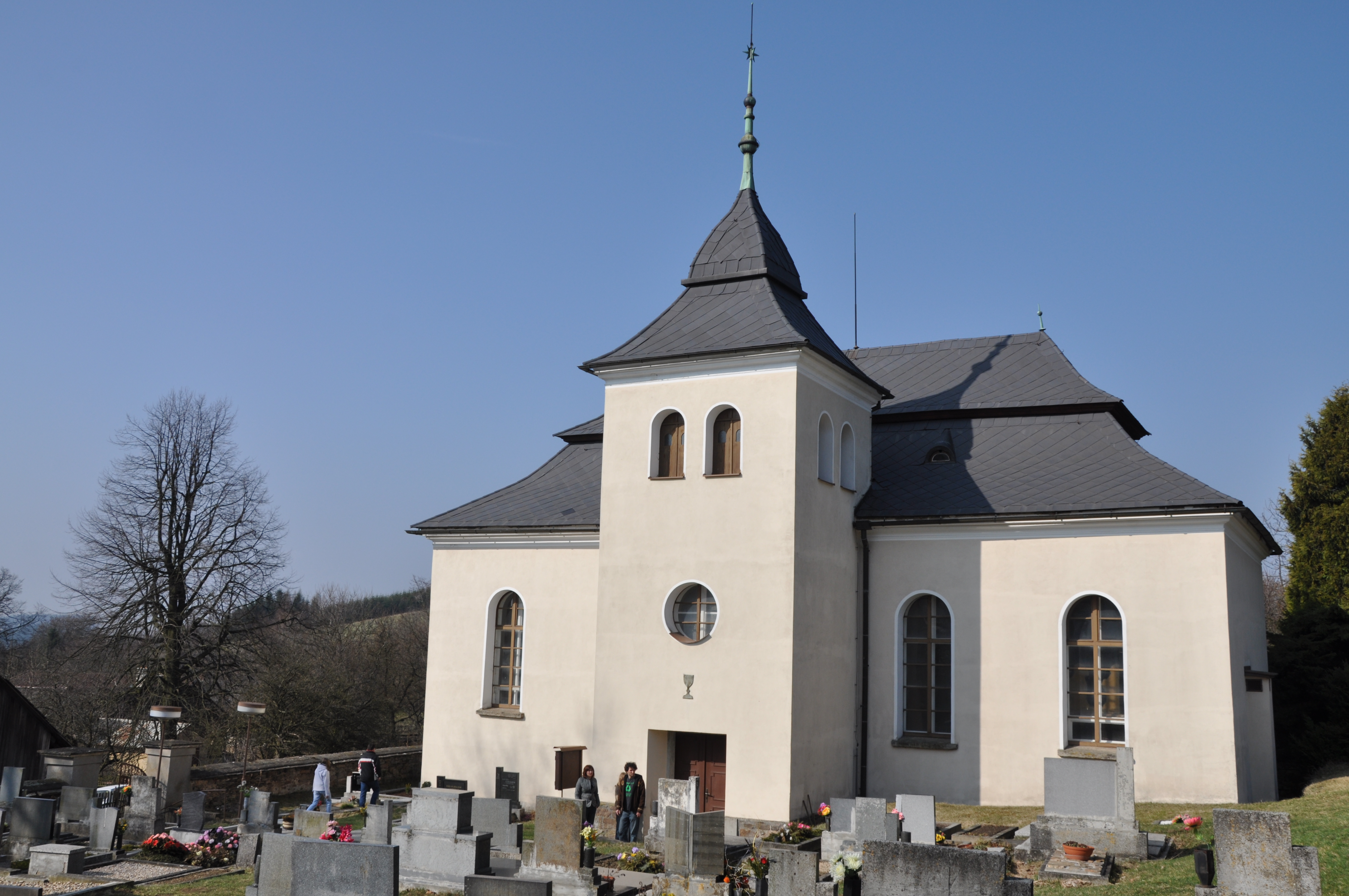 Dalečín, Žďár nad Sázavou District, Czechia, part Veselí.